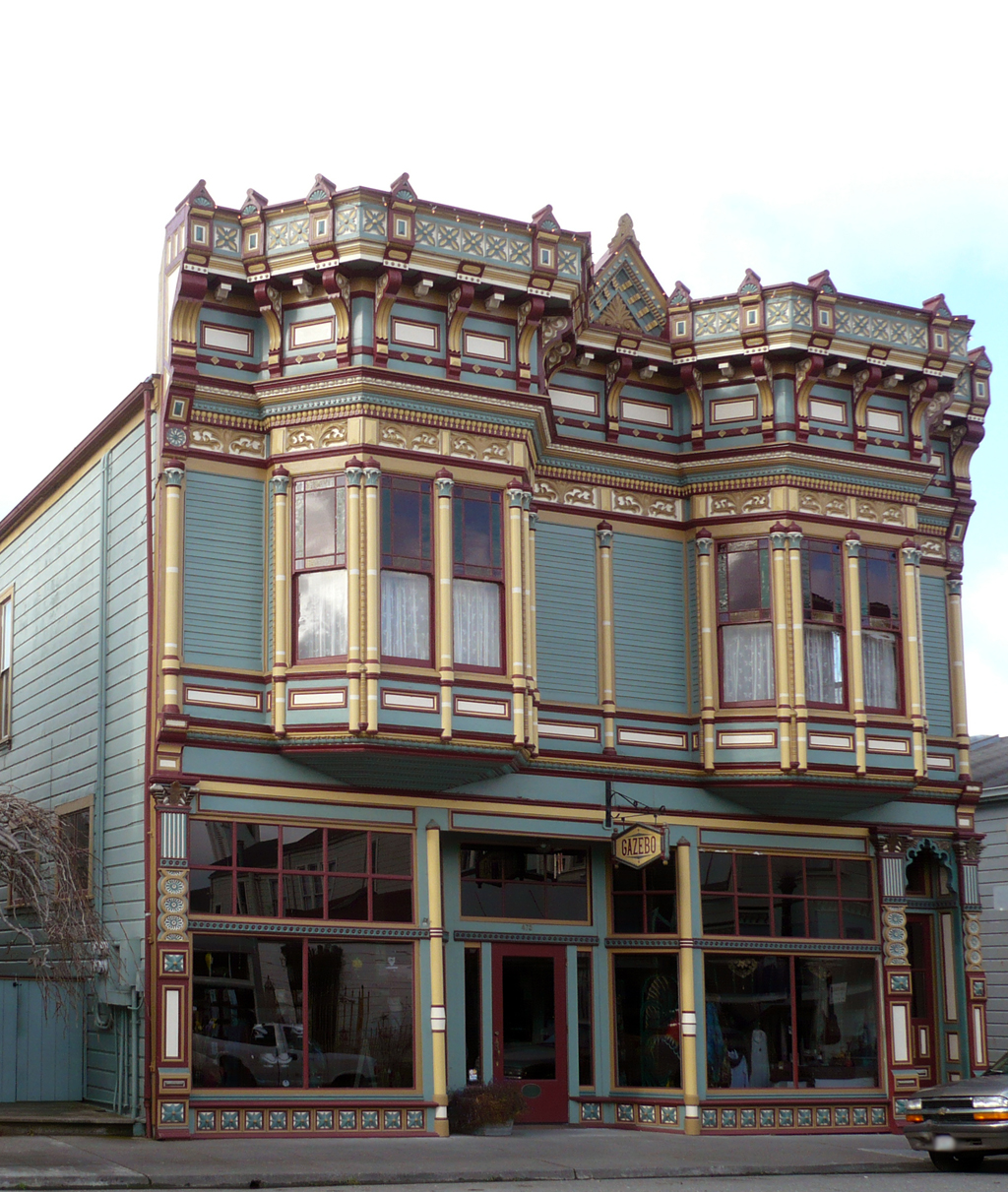 475 Main Street, Ferndale, California was built in 1898 as the New York Cash Store in the Eastlake-Stick style by T.J. Frost, Architect. It has been named the Gazebo by the last two retailers in the location.